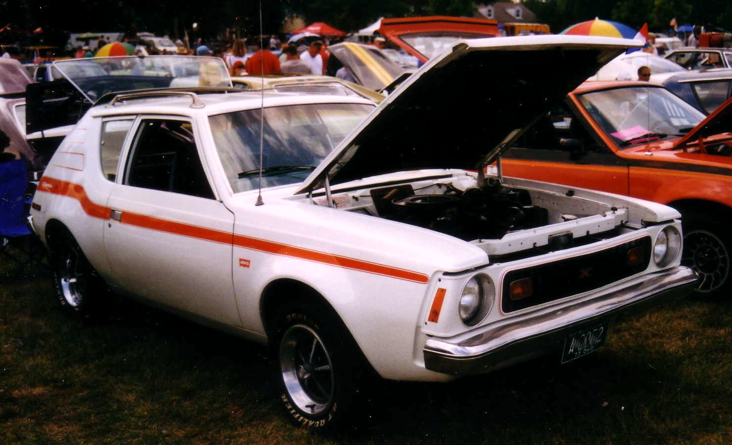 1973 AMC Gremlin X - white with Levi package (sub-compact by American Motors Corporation). Picture taken at an antique automobile show in Kenosha, Wisconsin.